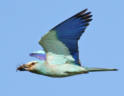 Coracias garrulus (Coraciidae) (European Roller), Tulcea, Romania